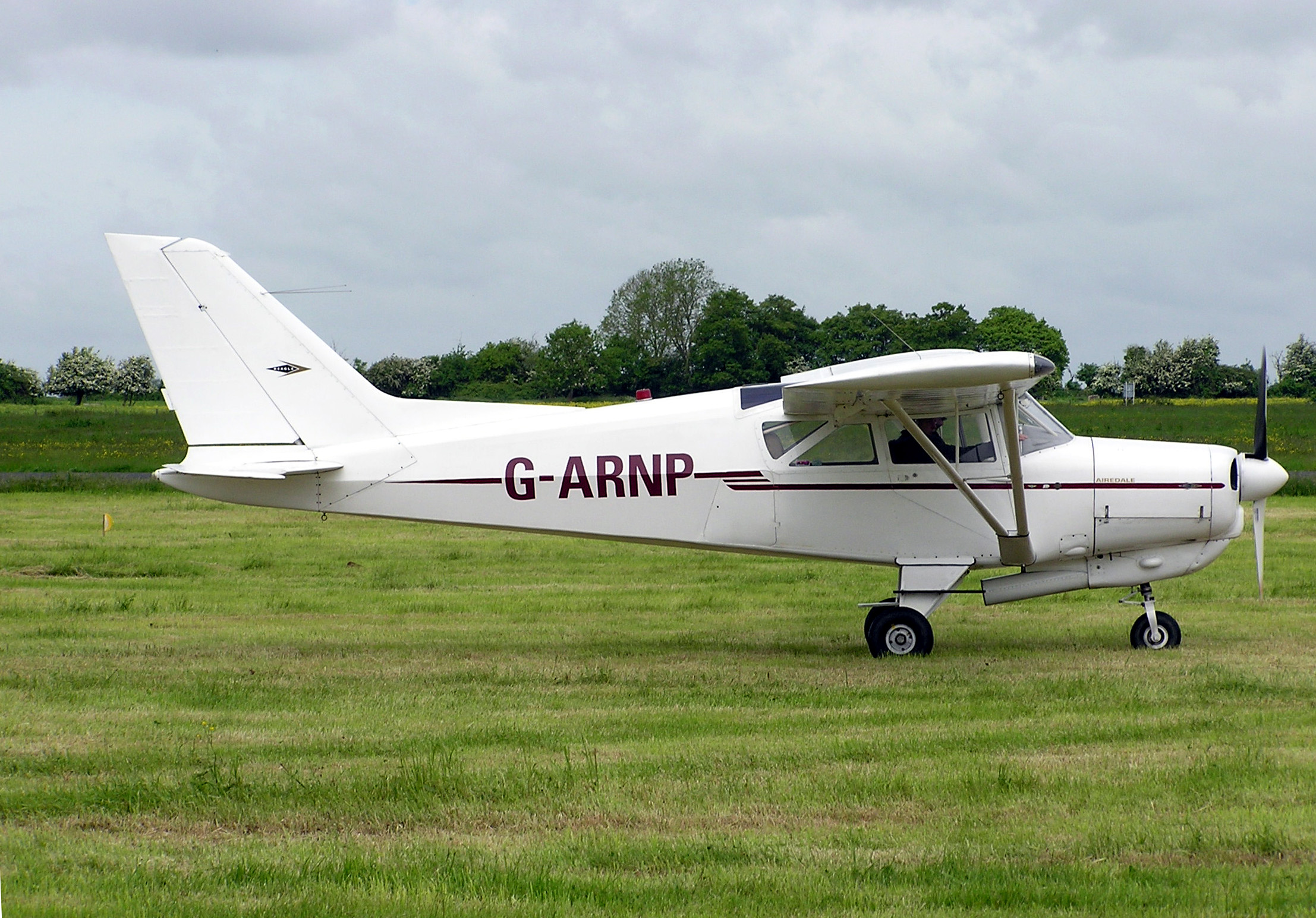 Beagle A.109 Airedale, UK registration G-ARNP, at Keevil Airfield, Wiltshire, England. Photographed by Adrian Pingstone on May 27th 2006 and released to the public domain.